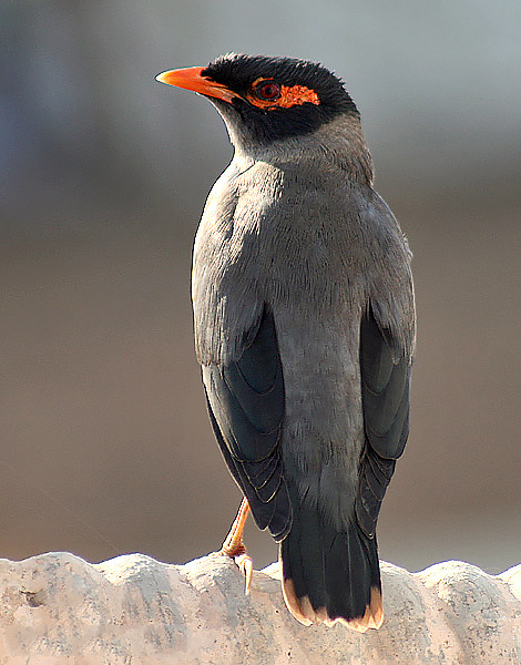 Bank Myna Acridotheres ginginianus at Hodal in Faridabad District of Haryana, India.